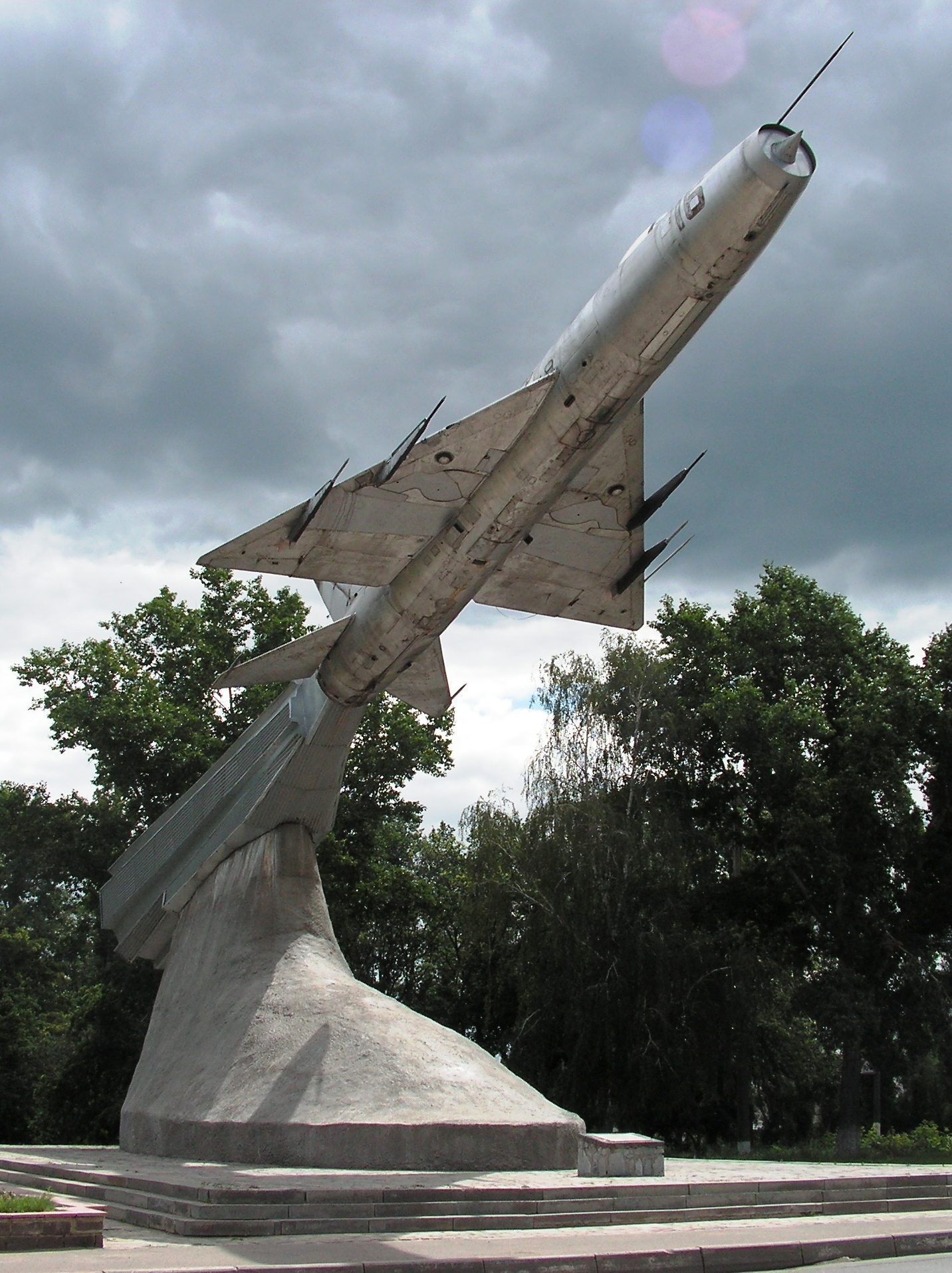 Petliakov